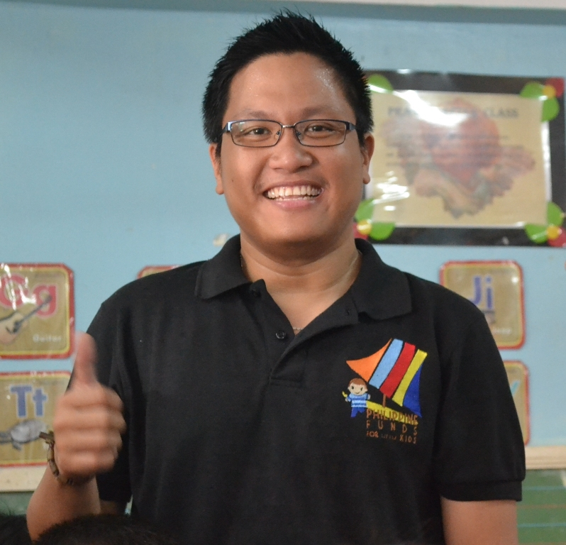 Photo of Jay Jaboneta. Taken during the distribution of school supplies to elementary students in Cagayan de Oro City last March 2012.